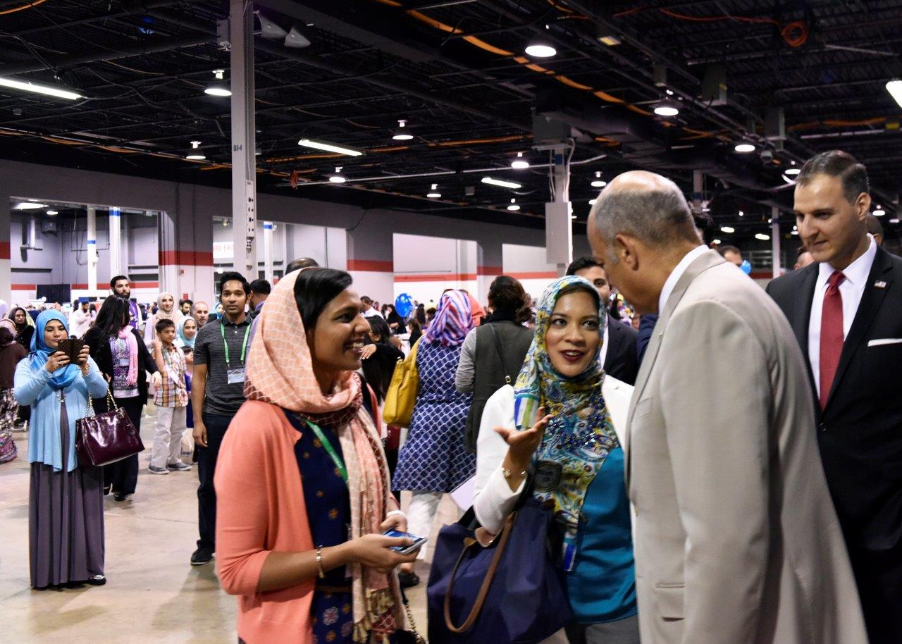 CHICAGO - Secretary of Homeland Security Jeh Johnson speaks at the Islamic Society of North America’s 53rd Annual Convention in Chicago, Sept. 3, 2016. Secretary Johnson has been steadfast in his commitment to build bridges to American Muslim communities, having personally met with leaders in Boston, New York, Philadelphia, rural Pennsylvania, Maryland, Virginia, Detroit, Chicago, Columbus, Houston, Minneapolis, Dearborn, and Los Angeles. Official DHS photo by Barry Bahler.